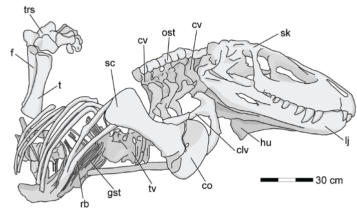 Schematic drawing of ULBRA-PVT-281, a complete skull and a partial postcranial skeleton. Abbreviations: clv, clavicle; co, coracoid; cv, cervical vertebra; f, fibula; gst, gastralia; hu, humerus; lj, lower jaw; ost, osteoderm; rb, rib; sc, scapula; sk, skull; t, tibia; trs, tarsus; tv, trunk vertebra.